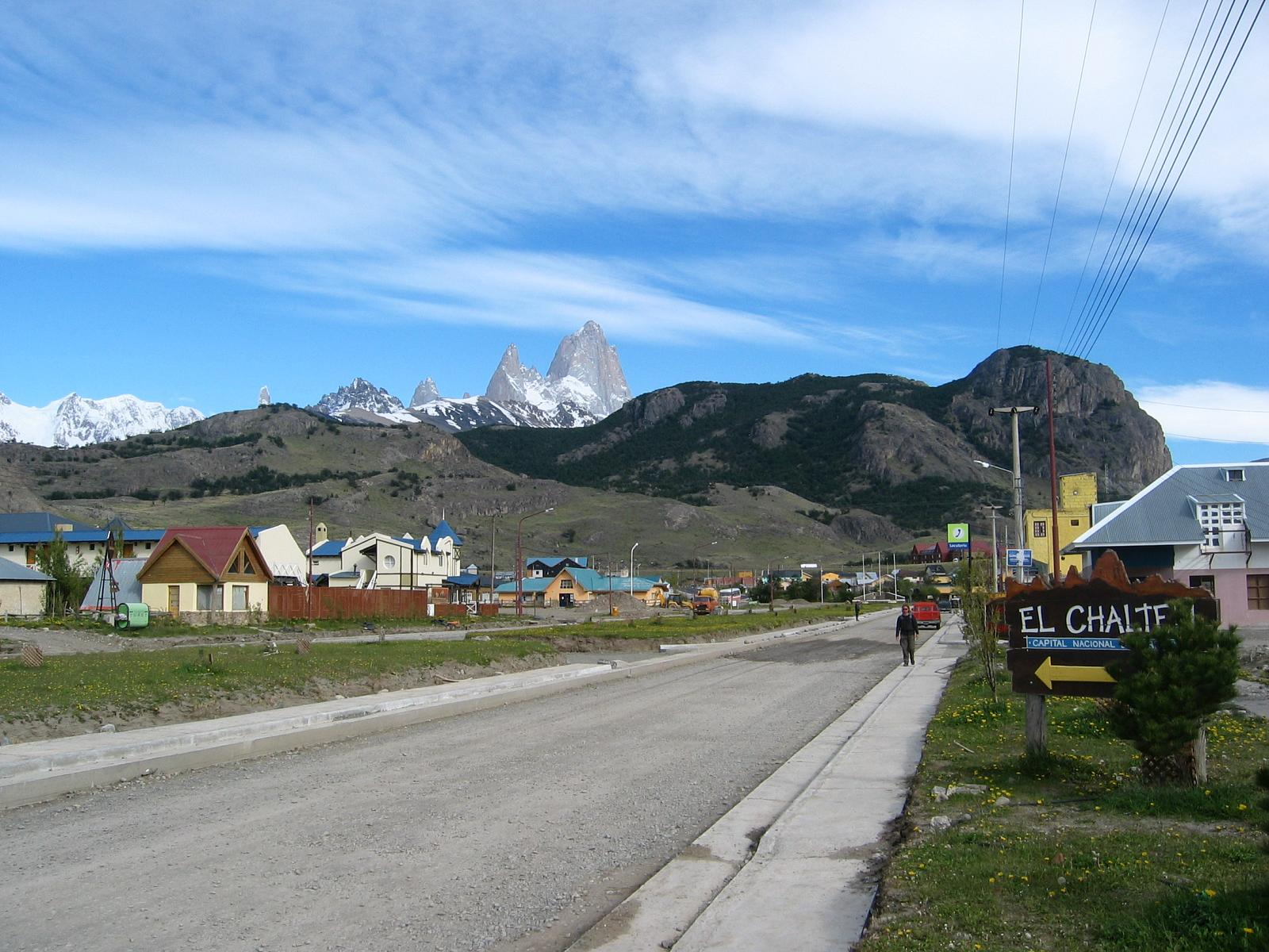 The village of El Chaltén